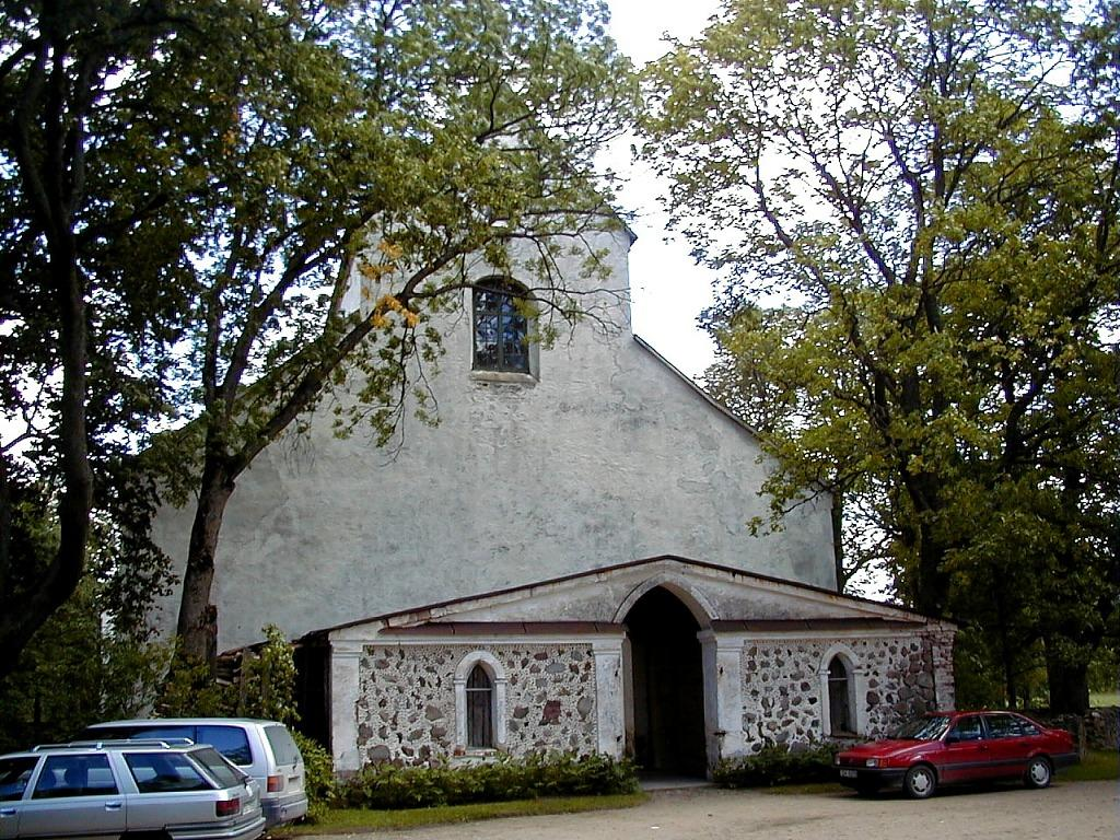 Rūjiena Saint Bartholomew Evangelical Lutheran ChurchLatviešu: Rūjienas Svētā Bērtuļa evaņģēliski luteriskā baznīca